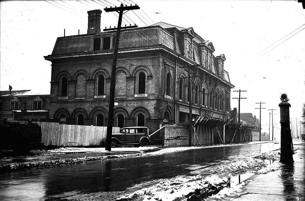 The St. Andrew's Market building on Adelaide Avenue, Toronto, Ontario, Canada. In 1837, a city block was set aside for a public market, the third of its kind after the St. Lawrence Market and the St. Patrick's Market. This Market was built in 1850 and eventually named "St. Andrew's" after its city ward. It served as an important commercial center for what was then Toronto's west end. A fire in 1860 destroyed the first market buildings. They were replaced in 1873 by a larger St. Andrew's Hall and Market. The replaced buildings were designed in Renaissance Revival style. The building housed a police station, a community hall, a public library branch, sellers of fresh produce, and even butchers. In the 1870's, St. Andrew's Market began to lose some of its relevancy as a commercial hub. In 1889, an impressive addition was added, however by 1900 the market stalls were mostly empty. The buildings were demolished in 1932. Today, the site is used for a water works building. The park immediately to the south, established in the 1880s, has been known as "St. Andrew's Playground" since 1909. In 2010, a Saturday-morning farmers' market was established, using the parking lot of the water works building. The farmers' market is known as the St. Andrew's Market, after its historic predecessor.